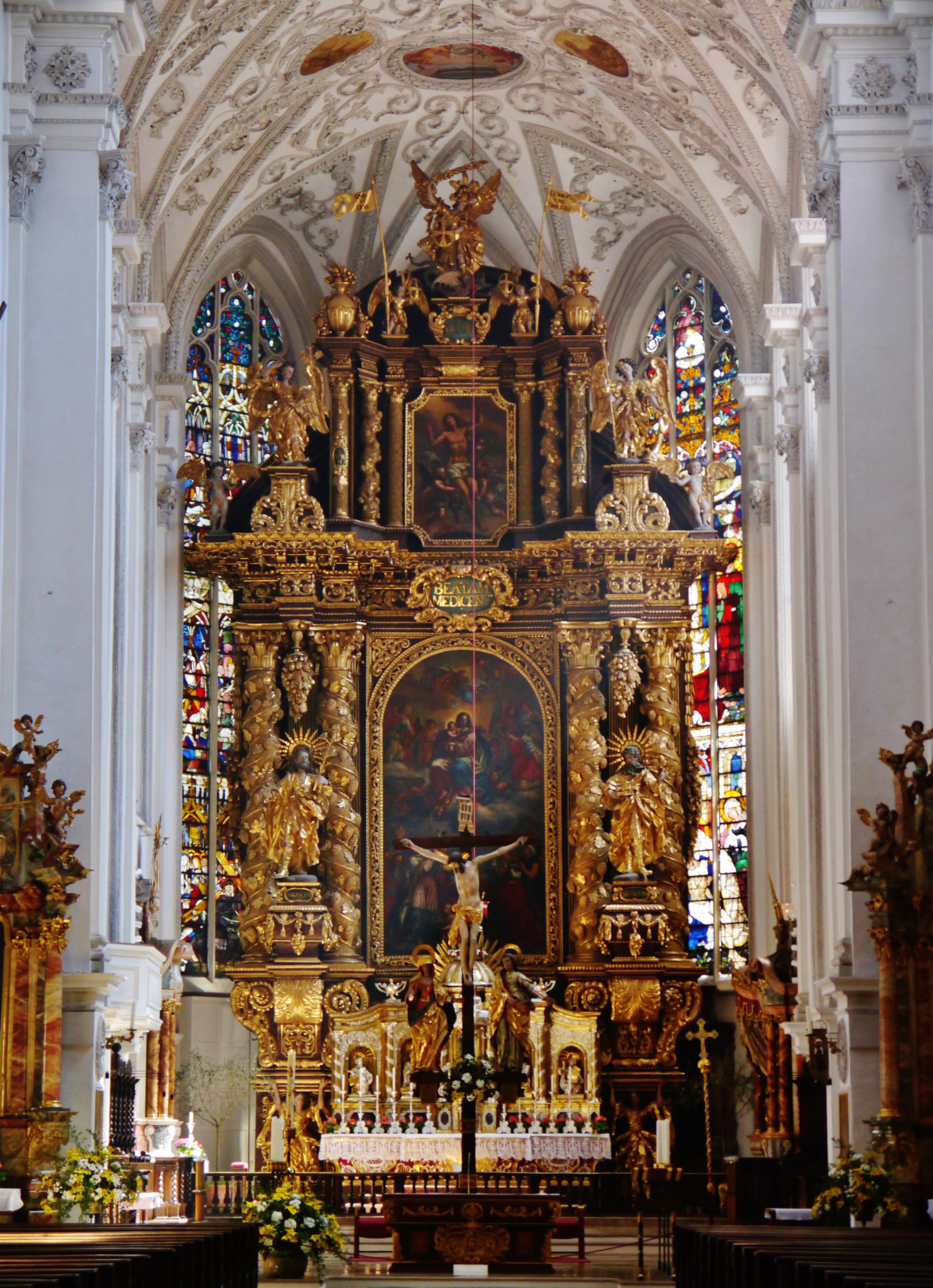 High Altar of St. Mary Assumption, Landsberg, Bavaria, Germany